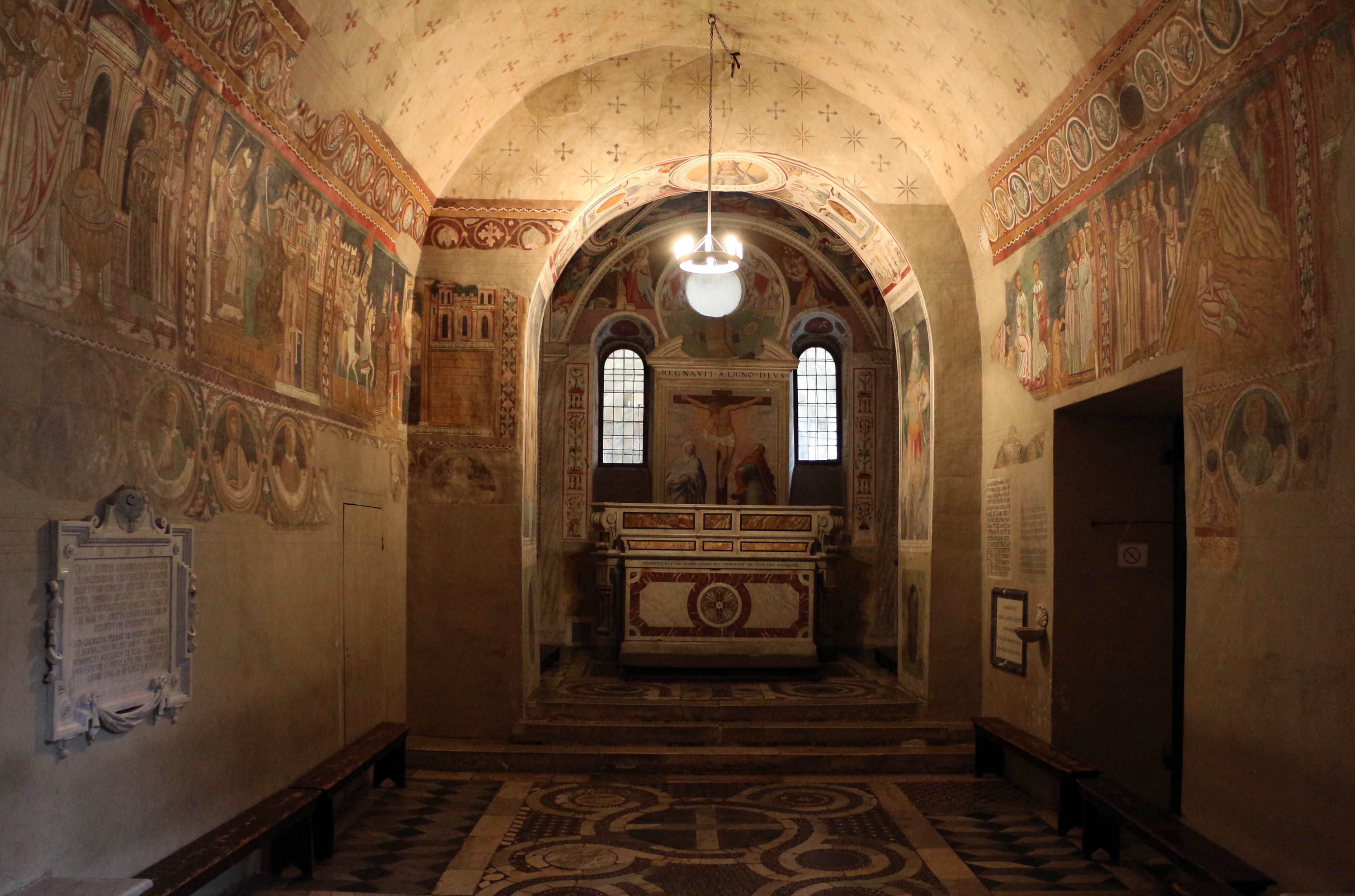 Pope Sylvester frescos, Santi Quattro Coronati